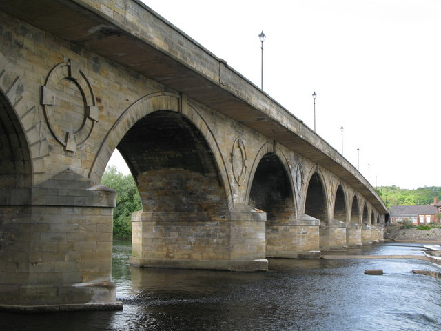 Tyne Bridge, Hexham (east side)